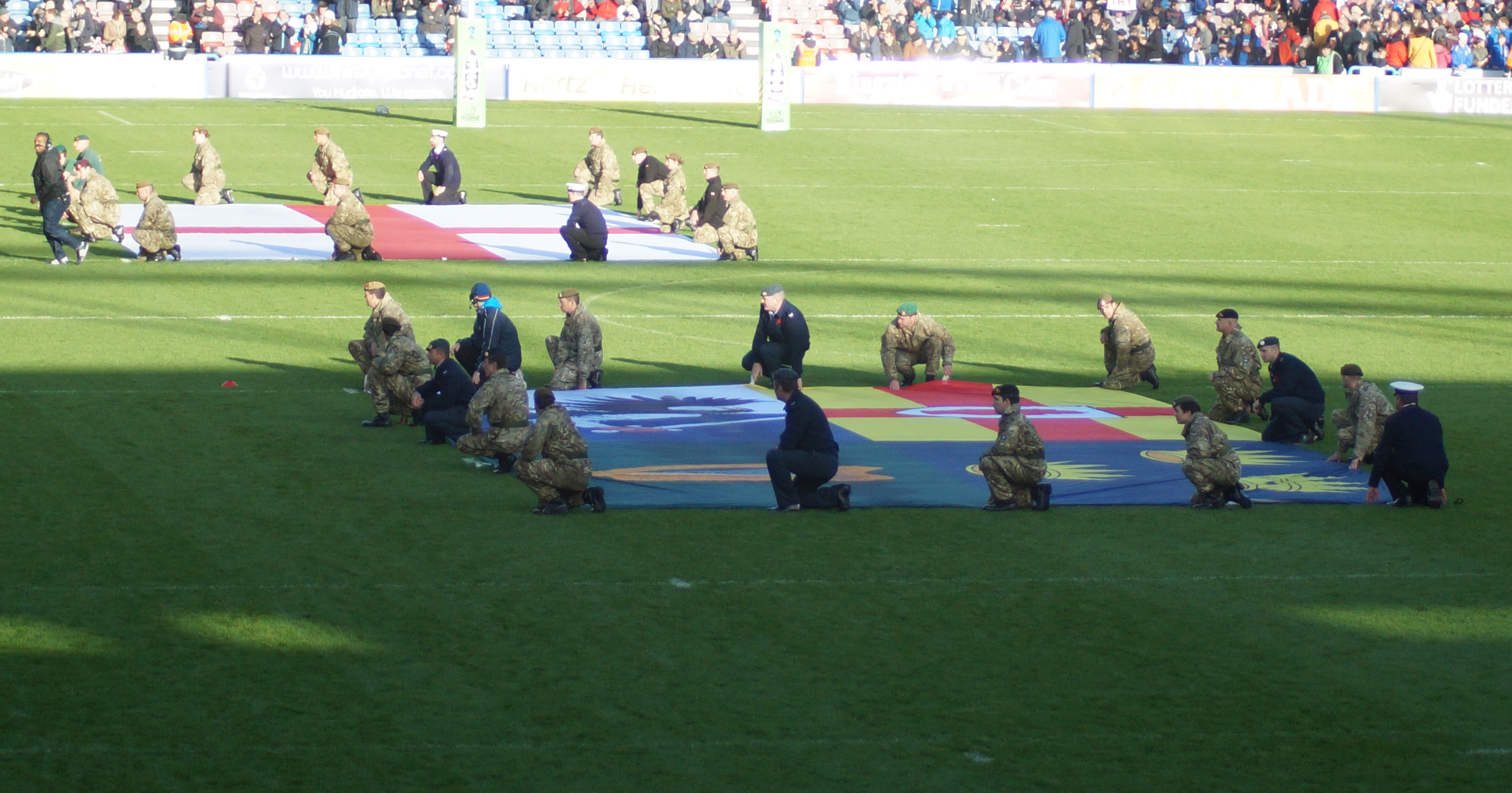 2013 Rugby League World Cup match between England and Ireland at John Smith's Stadium, Huddersfield.